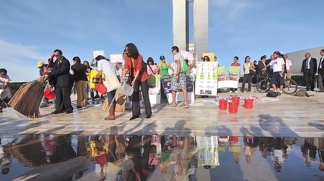 Lavando a entrada do congresso